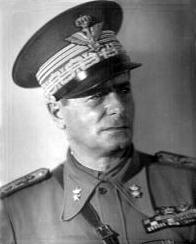 Alessandro Pirzio Biroli (Bologna, 23 July 1877 – Rome, 20 May 1962)